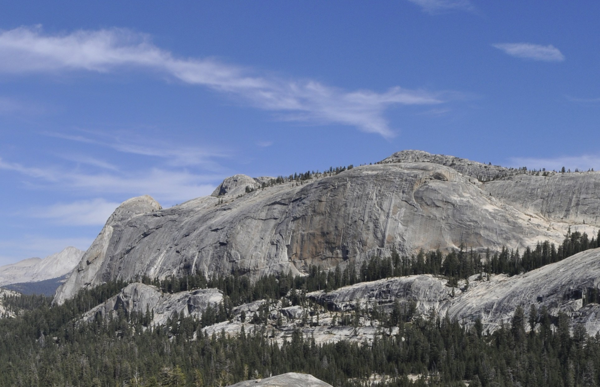 Medlicott Dome seen from Pywiack Dome. Tuolumne Meadows section of Yosemite National Park.